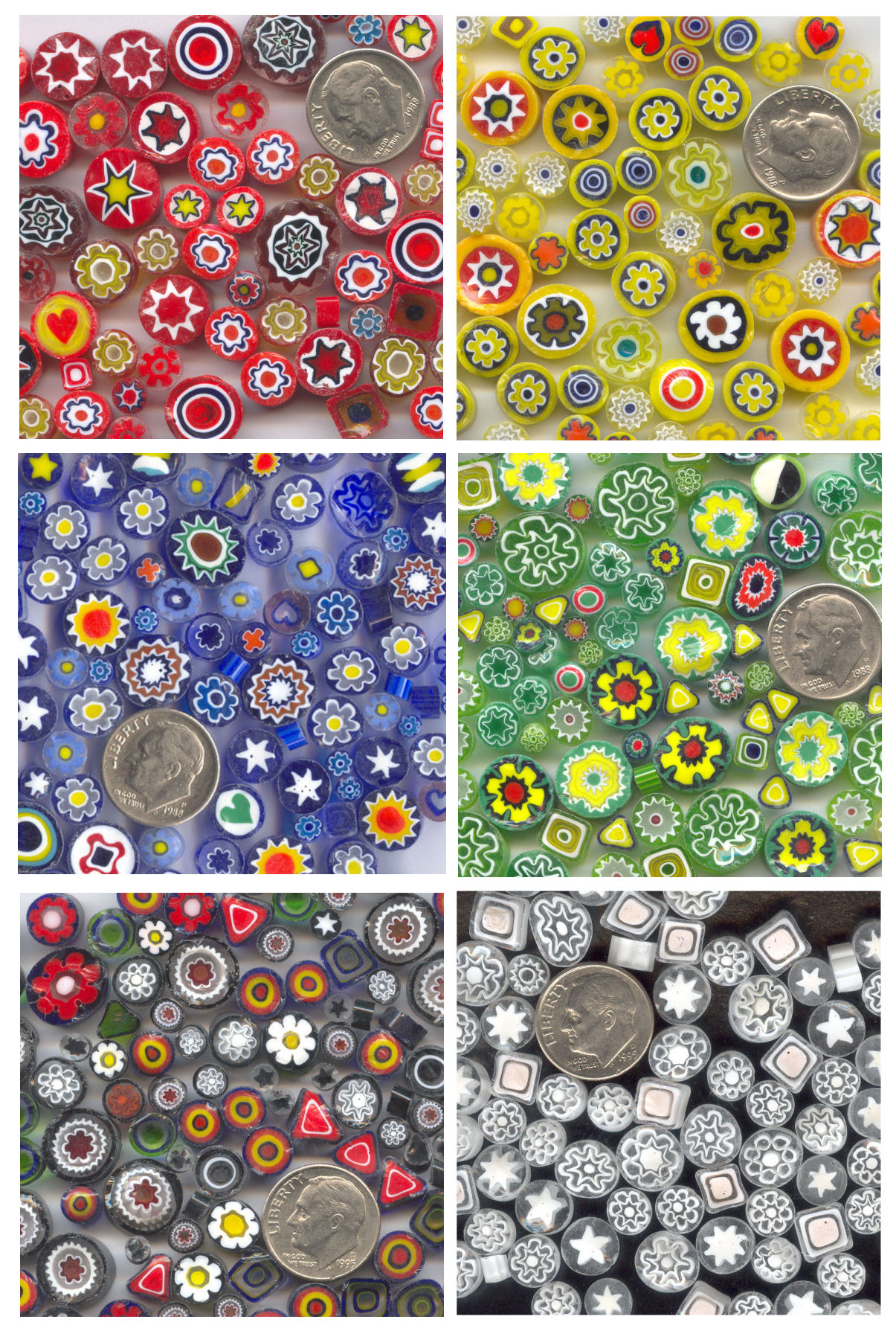 Color Family Mixes